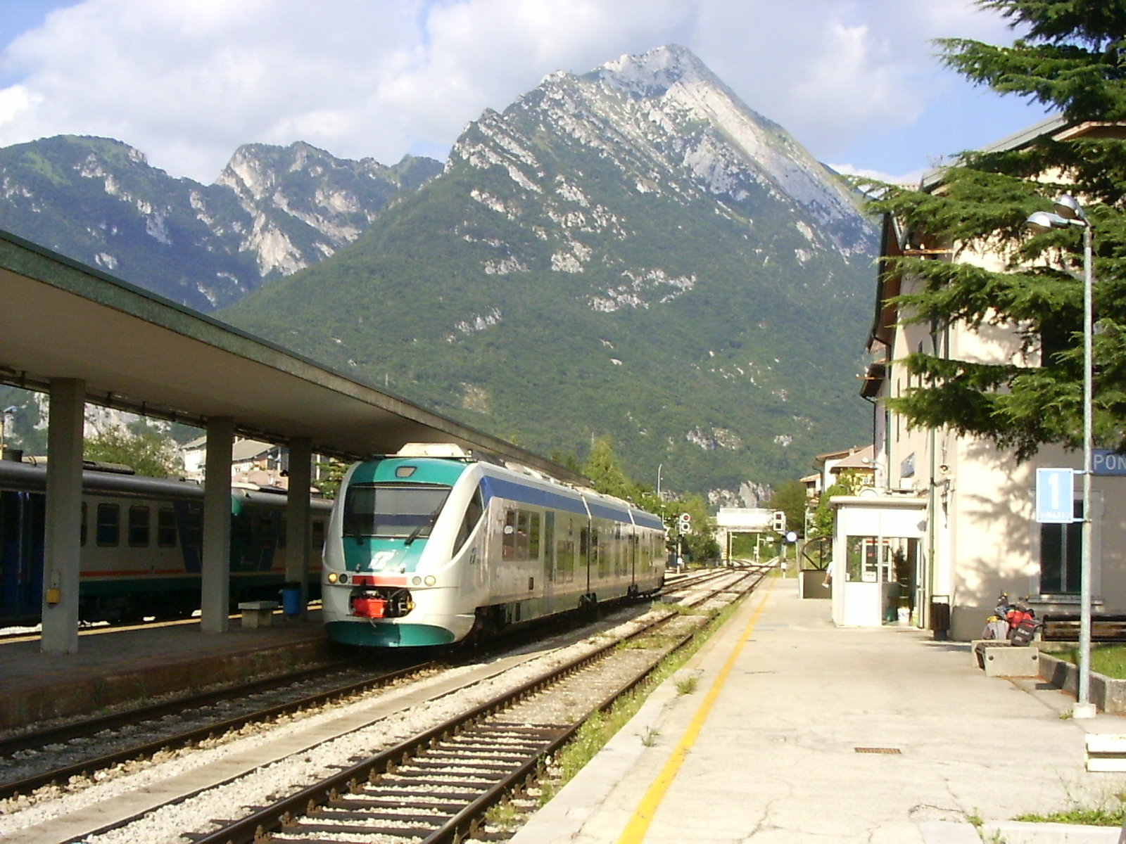 Diesel multiple unit at Ponte nelle Alpi-Polpet train station